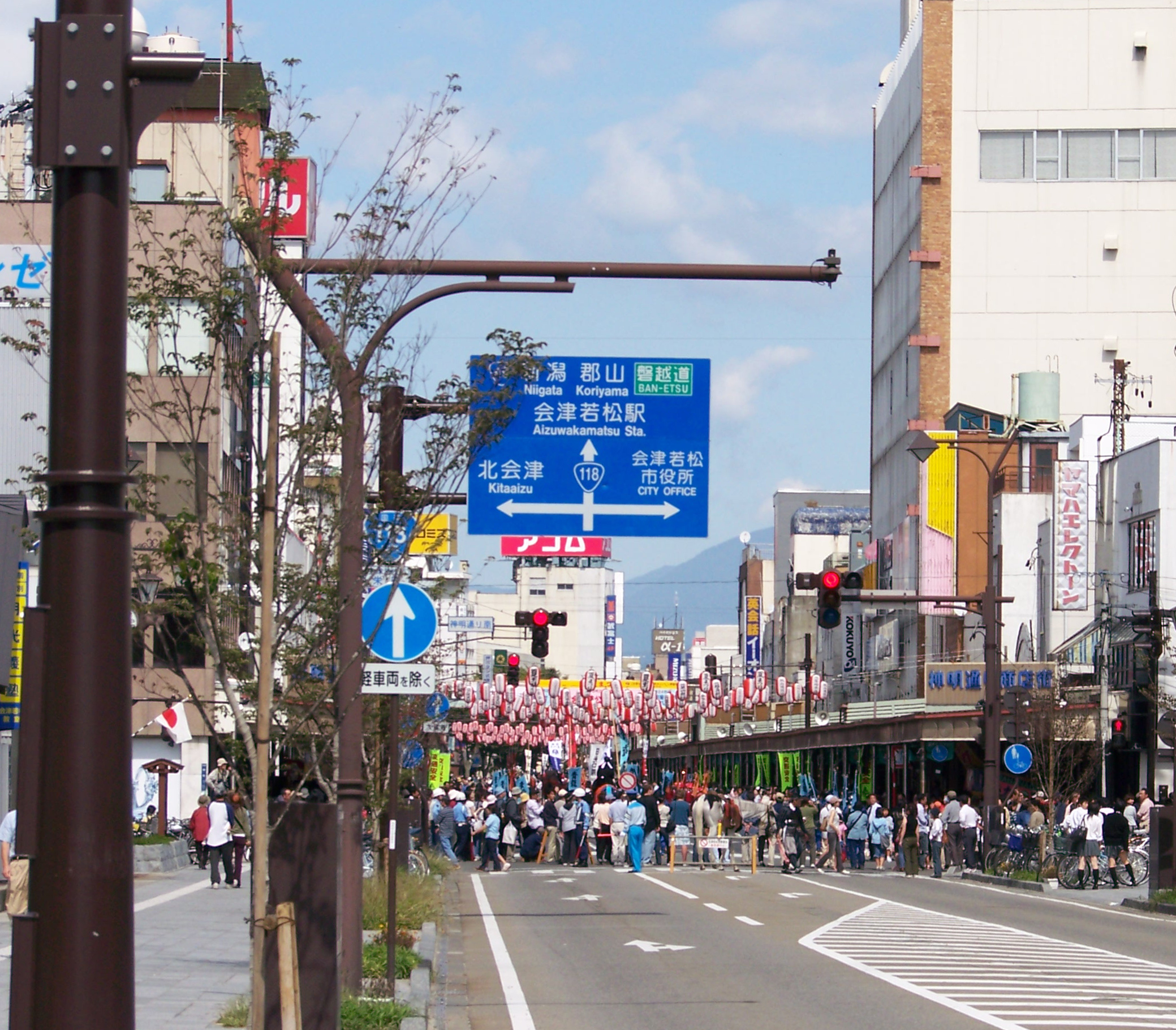 Shinmei-dori, Aizuwakamatsu, Fukushima Prefecture, Japan, during the Autumn Festival. Taken 23 September 2006.